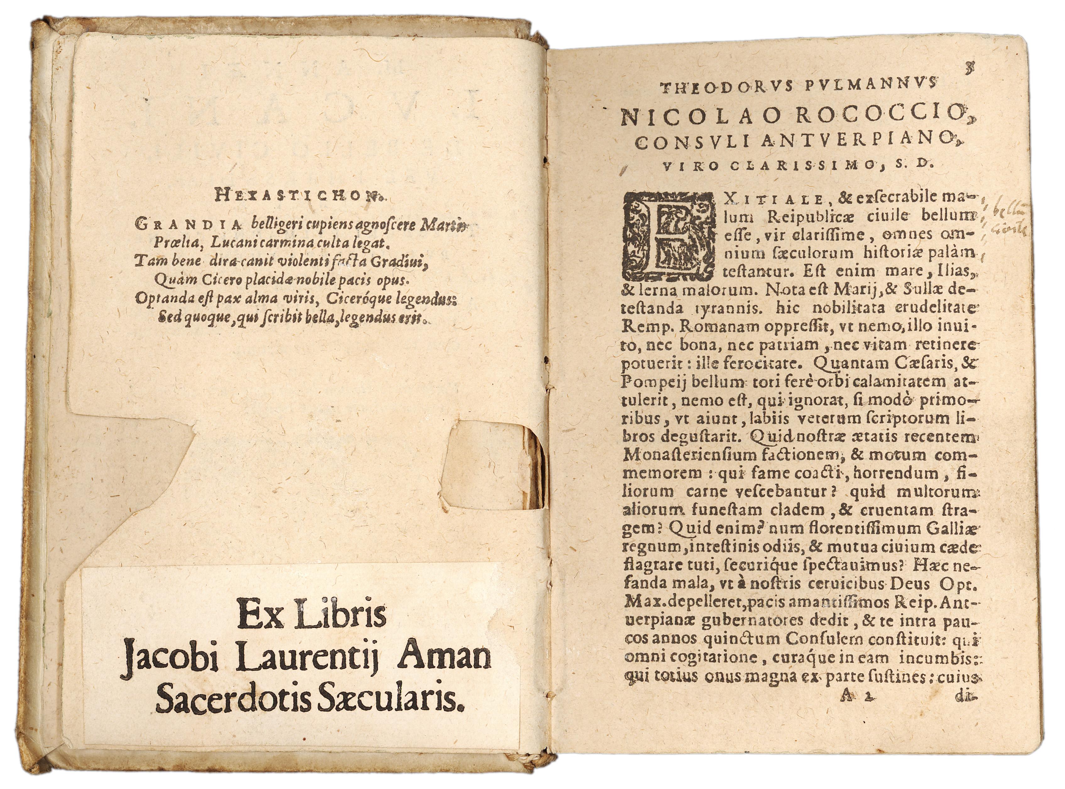 Page 2 and 3 of Lucan’s De bello civili (alias Pharsalia), edited by Theodor Pulmann (also Pulman or Poelmann), printed by the Officina Plantiniana (Plantin) and Johannes/Jan Moretus in Antwerp in 1592. On the left page (2), you see a Neolatin poem (Hexastichon) about Lucan’s work and the ex-libris of a former owner. On the right page (3) begins Pulmann’s foreword, a dedication letter to Nicolaus Rococcius. This foreword is dated (at the end) to 1564, the year of Pulmann’s 1st edition of Lucan’s poem, and treats the cruels of civil wars from ancient Rome to Pulmann’s own time.